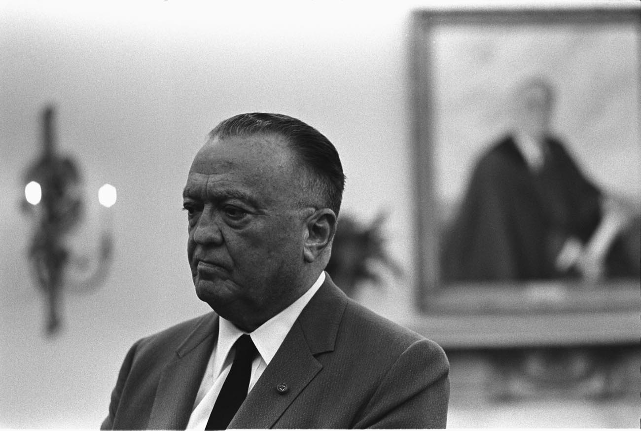 J. Edgar Hoover at Oval Office, White House, Washington, DC